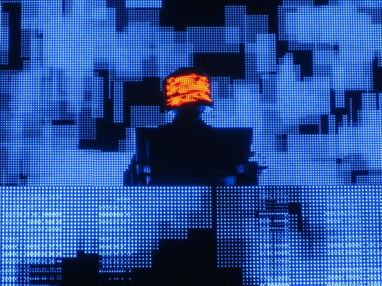 Squarepusher at Donaufestval 2012, Krems, Austria